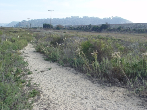 Del Mar loop trail near Los Penasquitos Lagoon with railroad causeway in background